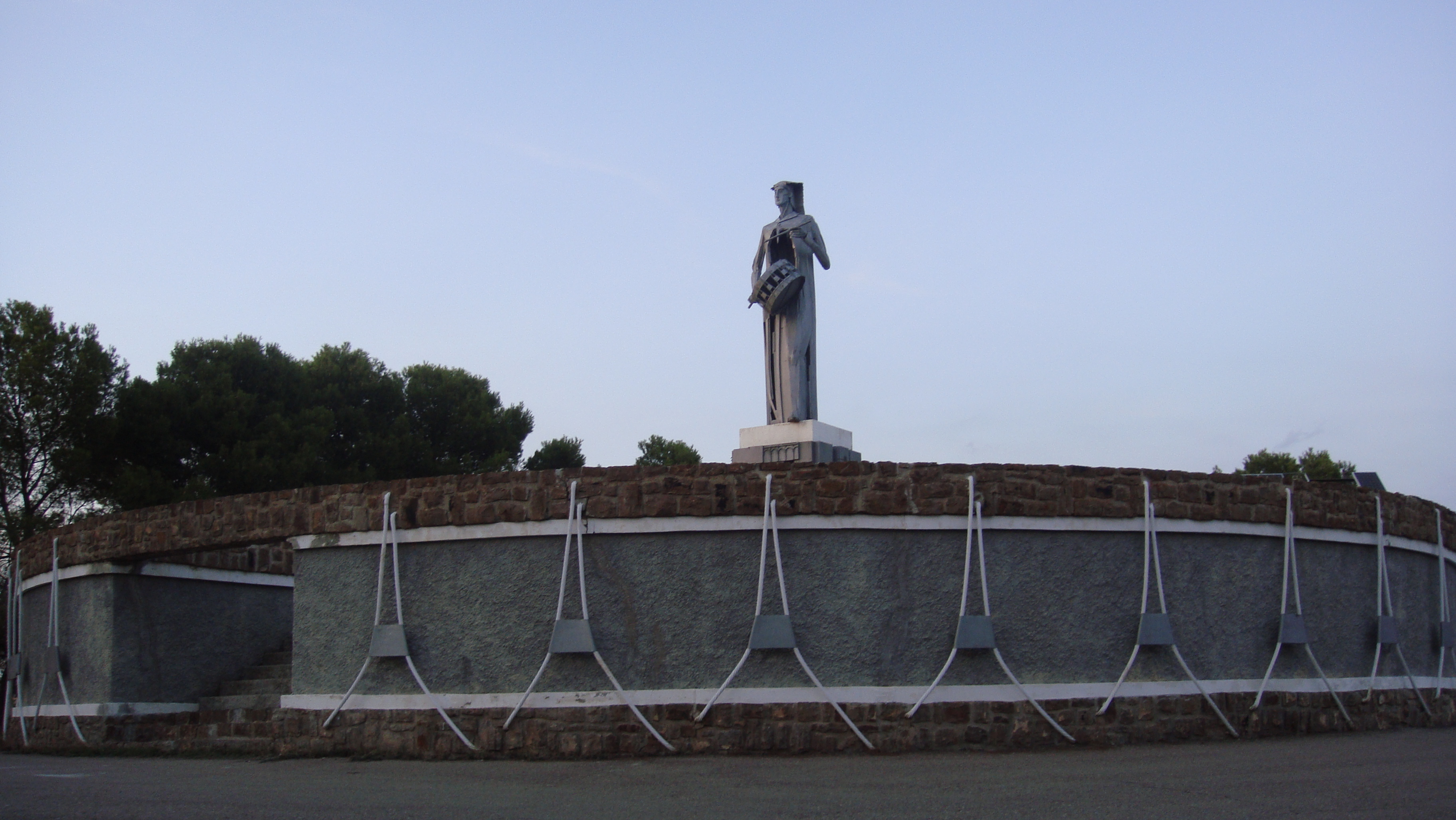 Monument in Alcañiz (Spain) in the Route of Drum and Bass Drum